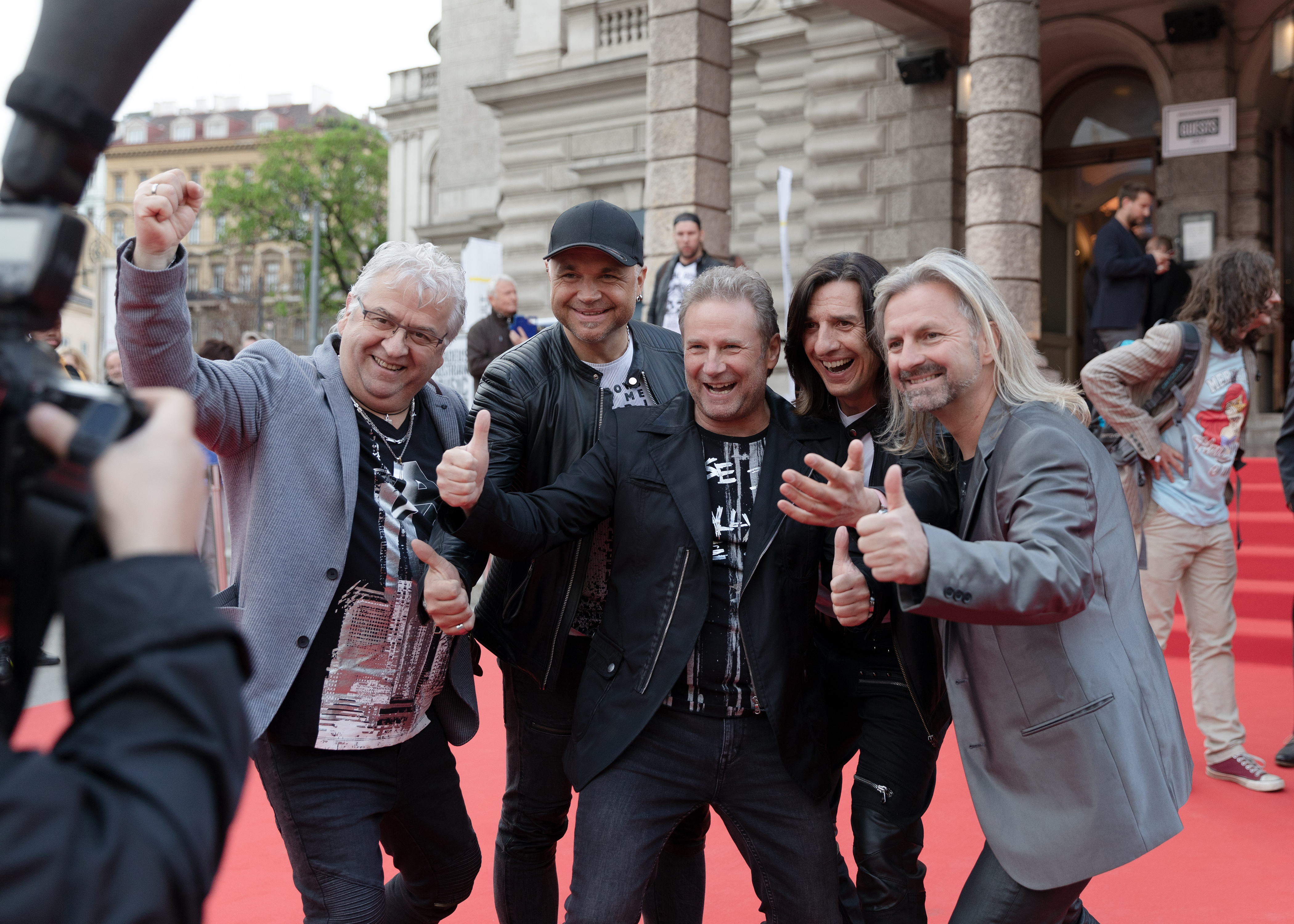 Nockalm Quintett at the Amadeus Austrian Music Award 2018 at Volkstheater in Vienna.